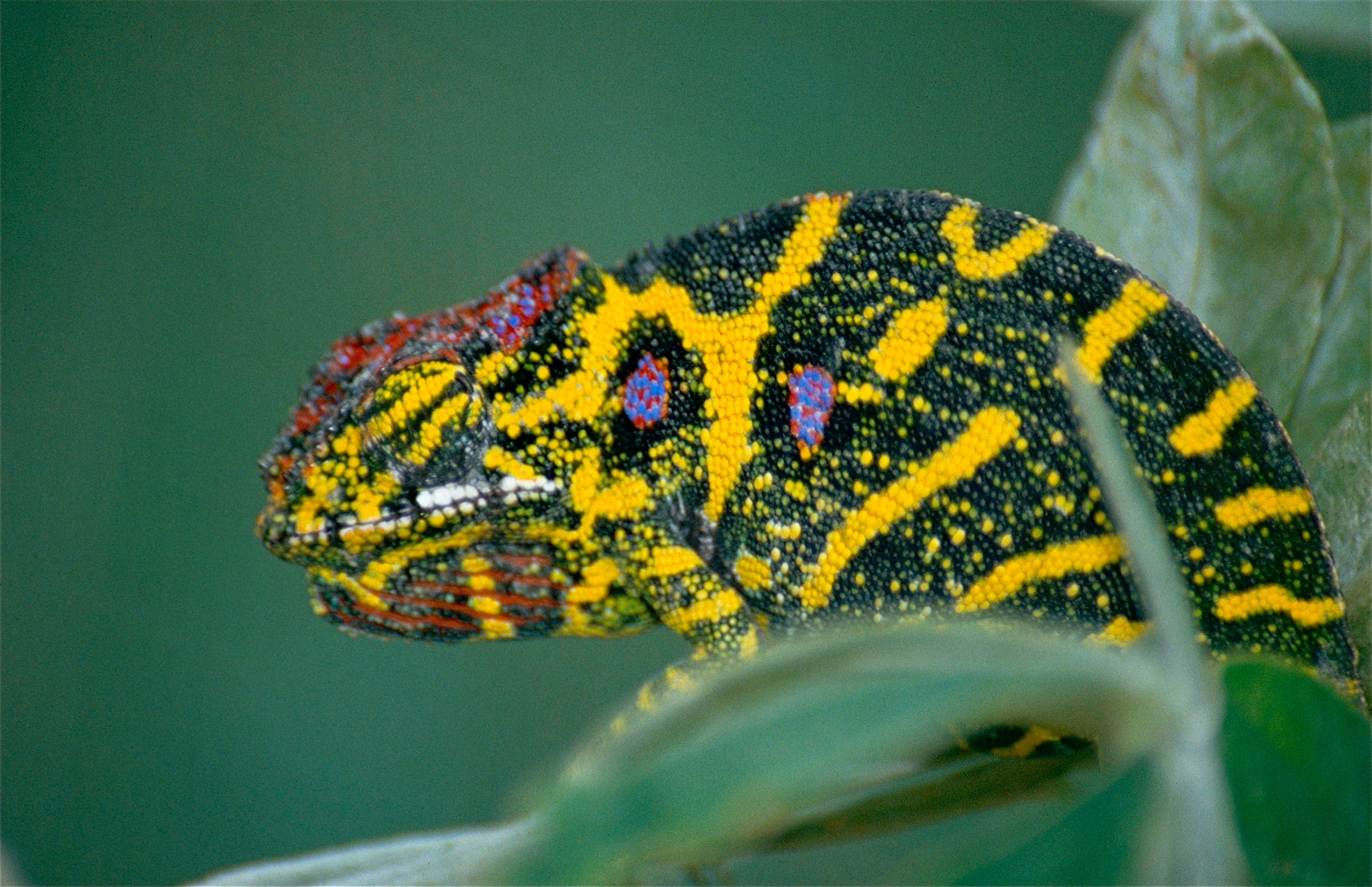 Réserve Peyrieras, Moramanga, MADAGASCAR Scanned Slide from 1998